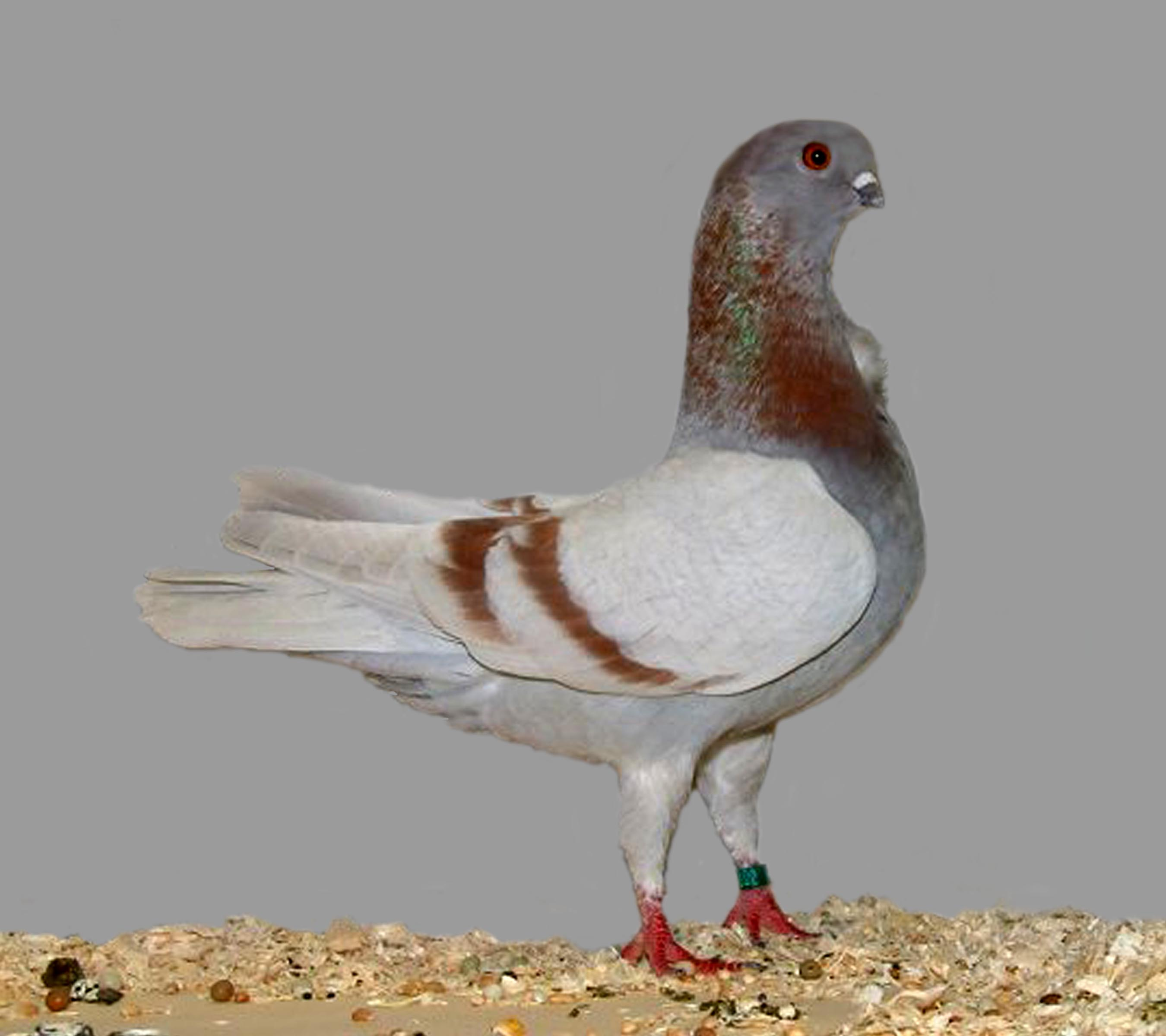 Italian Owl (Mealie)